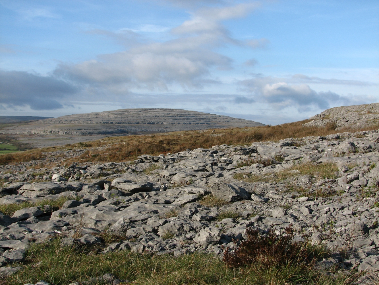 The Burren, Claire County